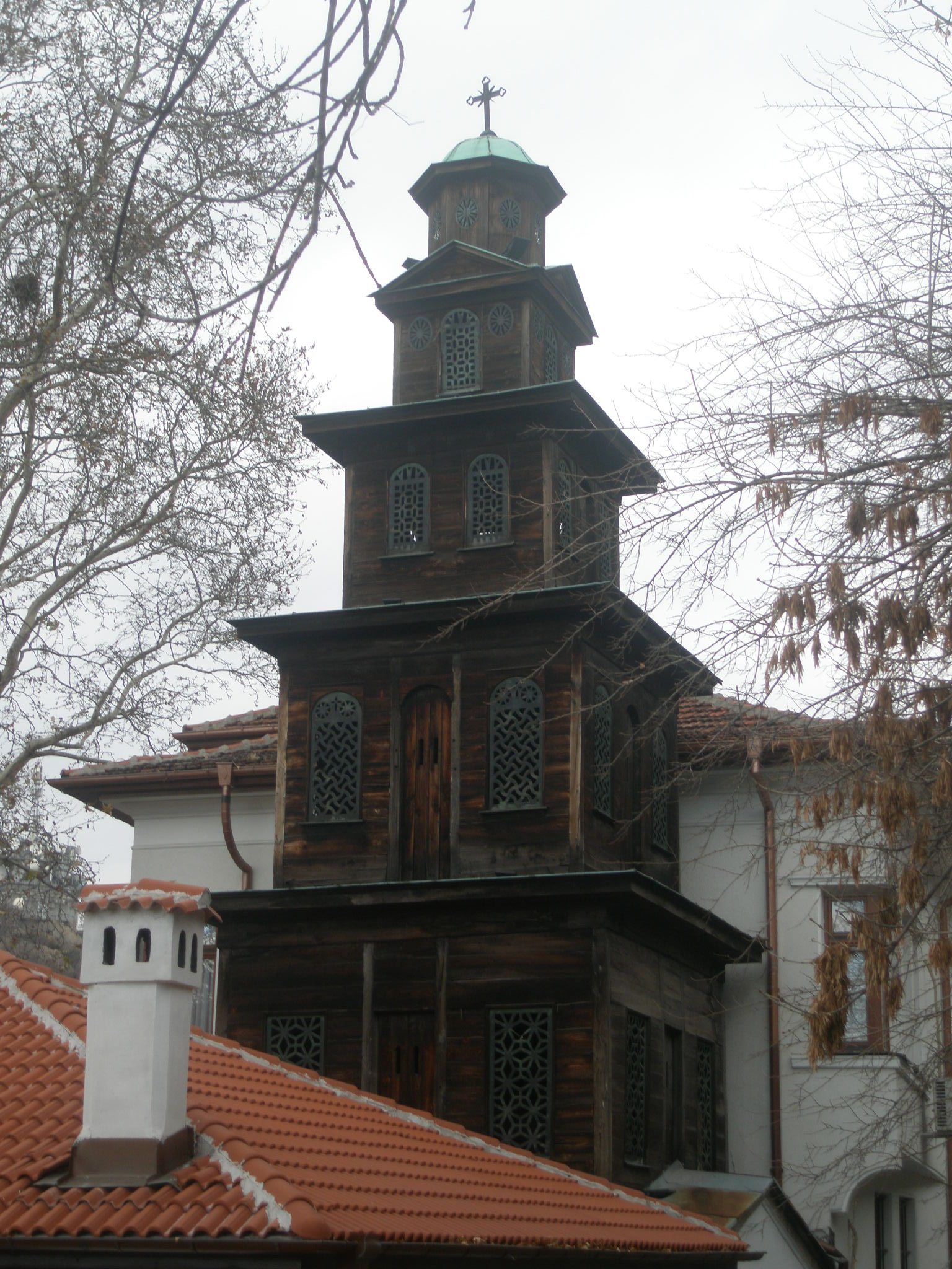 дървената камбанария